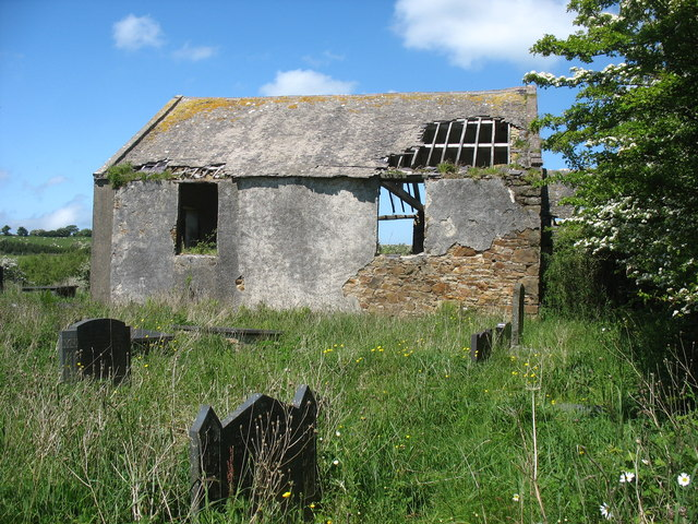 Capel Newydd, Penygraigwen This now dilapidated chapel was the second Baptist chapel built here on the banks of Afon Goch. This was in 1848 and it replaced a chapel built in 1776 which was known locally as Capel Mwd (=mud chapel). The most celebrated member of Capel Mwd was Cadi Rondol (Cathrine Randal 1743-1828) of Amlwch, a lady of the night notorious for her lewd and often violent behaviour. The ageing Cadi underwent a religious conversion in 1790 and became a devout if rather eccentric chapel woman. In later life she was employed as a nursemaid by John Elias, the "Anglesey Pope".